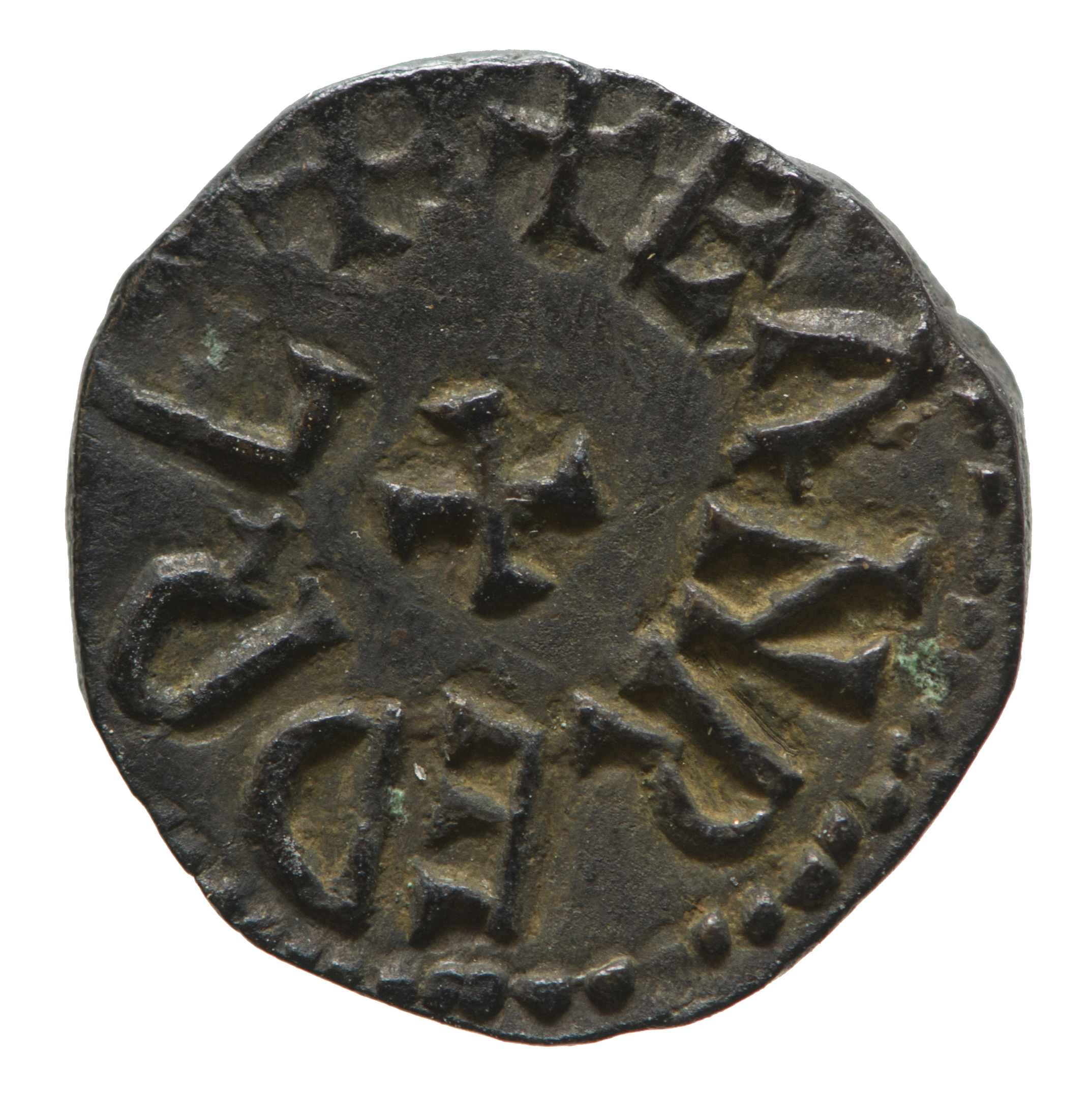 Obverse (front) of a copper styca of Eanred Cross